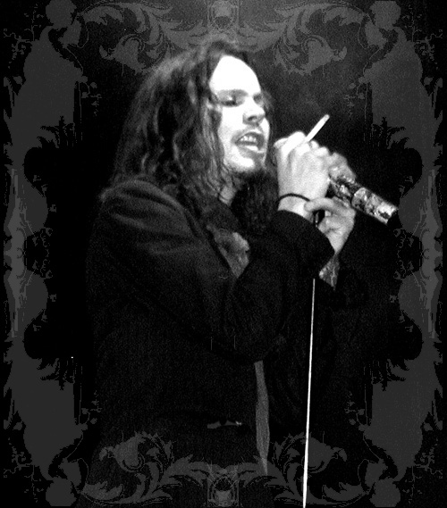 Ville Valo. Taken on the Love Metal tour. Norfolk VA, 2003. Ville really has a gothic fog around him all the time -- this wasn't done with photoshop! ;)